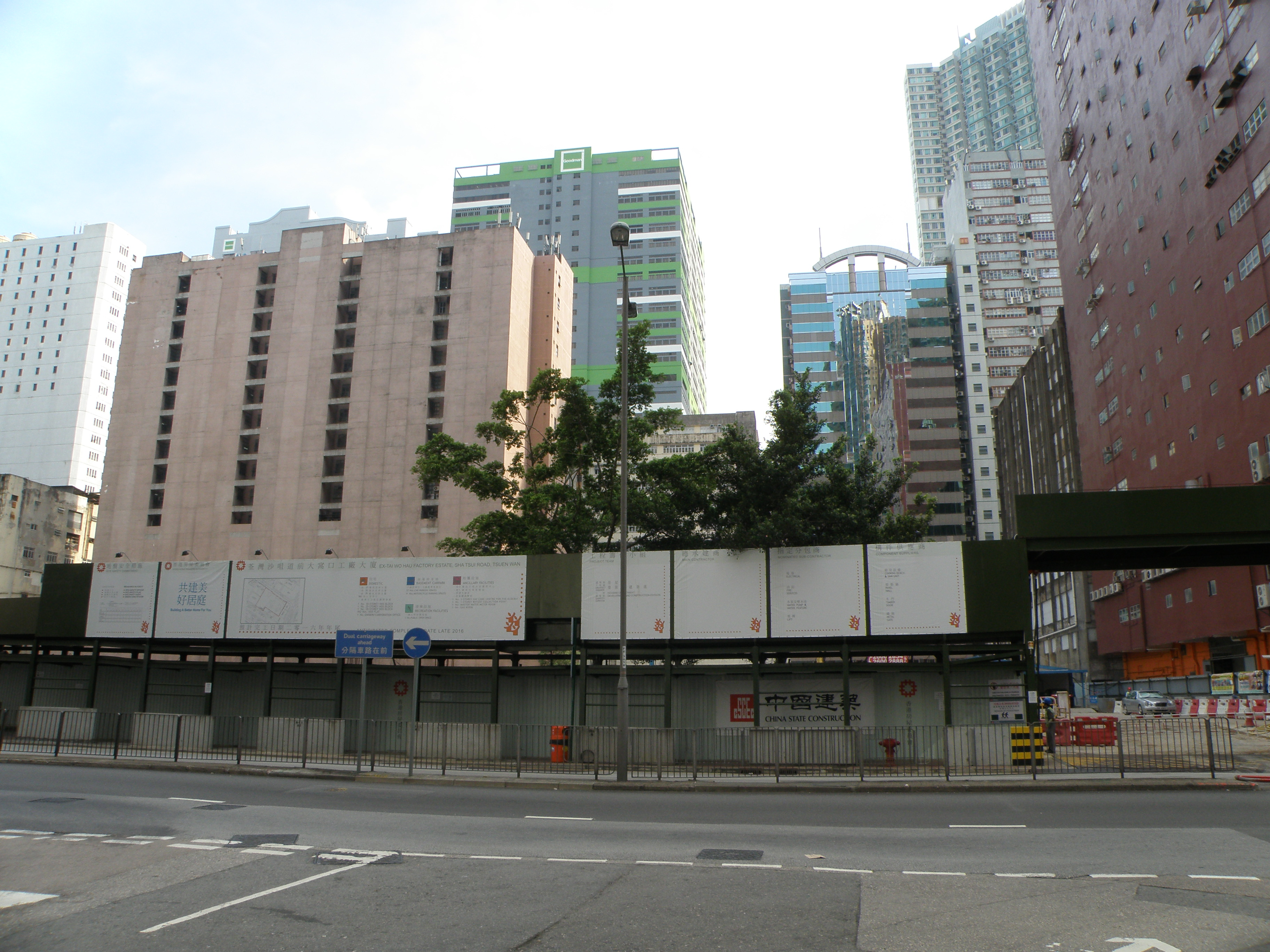 Sheung Chui Court construction site in Sha Tsui Road, Tsuen Wan, Hong Kong. Sheung Chui Court is a three towers residence with 962 units of New Home Ownership Scheme which will be completed by the end of 2016.